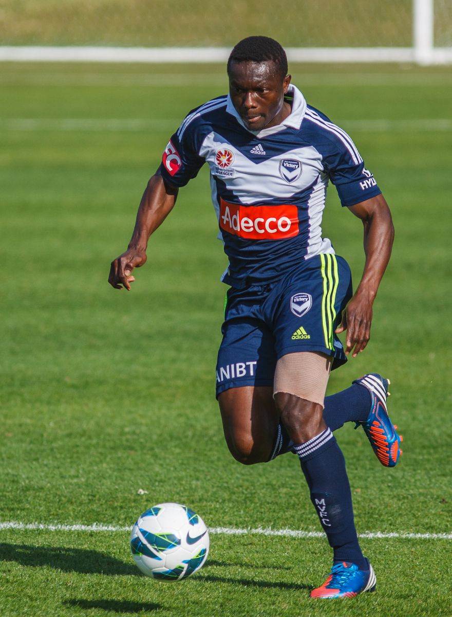 Adama Traore playing in a pre-season game between the Central Coast Mariners and Melbourne Victory on 16/09/2012.